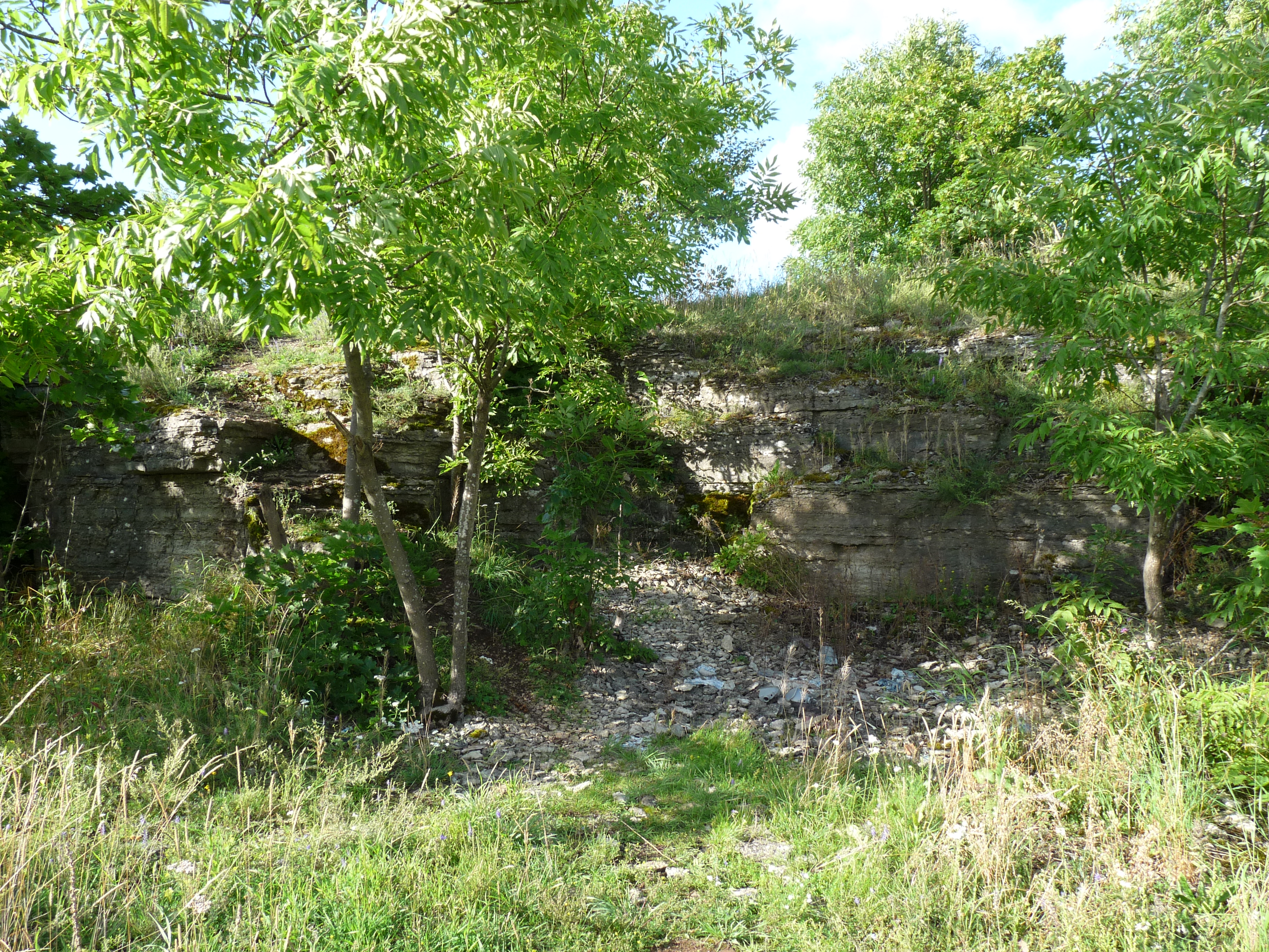 Fieldstone mountain in Lasnamäe